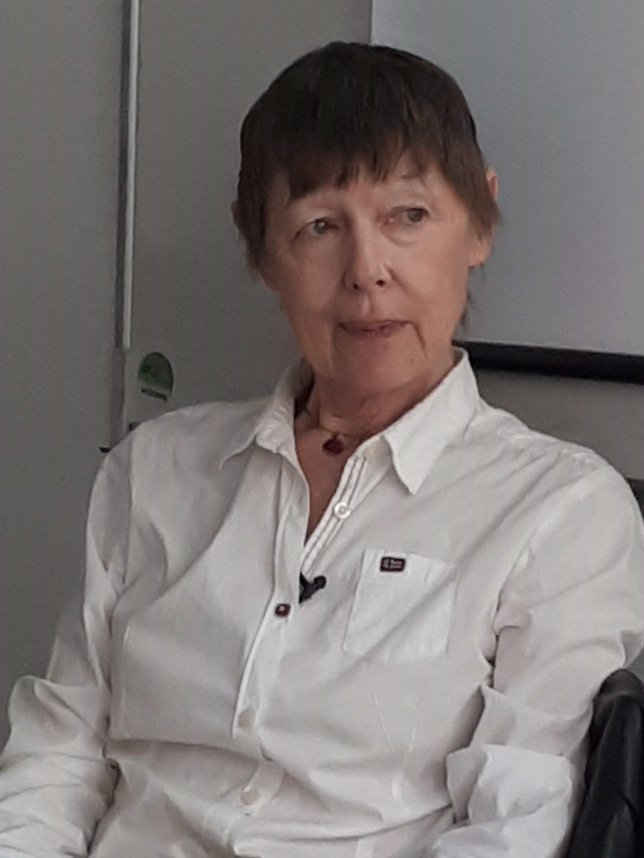 Political Science researcher Nonna Mayer, discussant at a CEPREMAP conference, 2019-05-24. Location : École Normale Supérieure, Campus Jourdan.